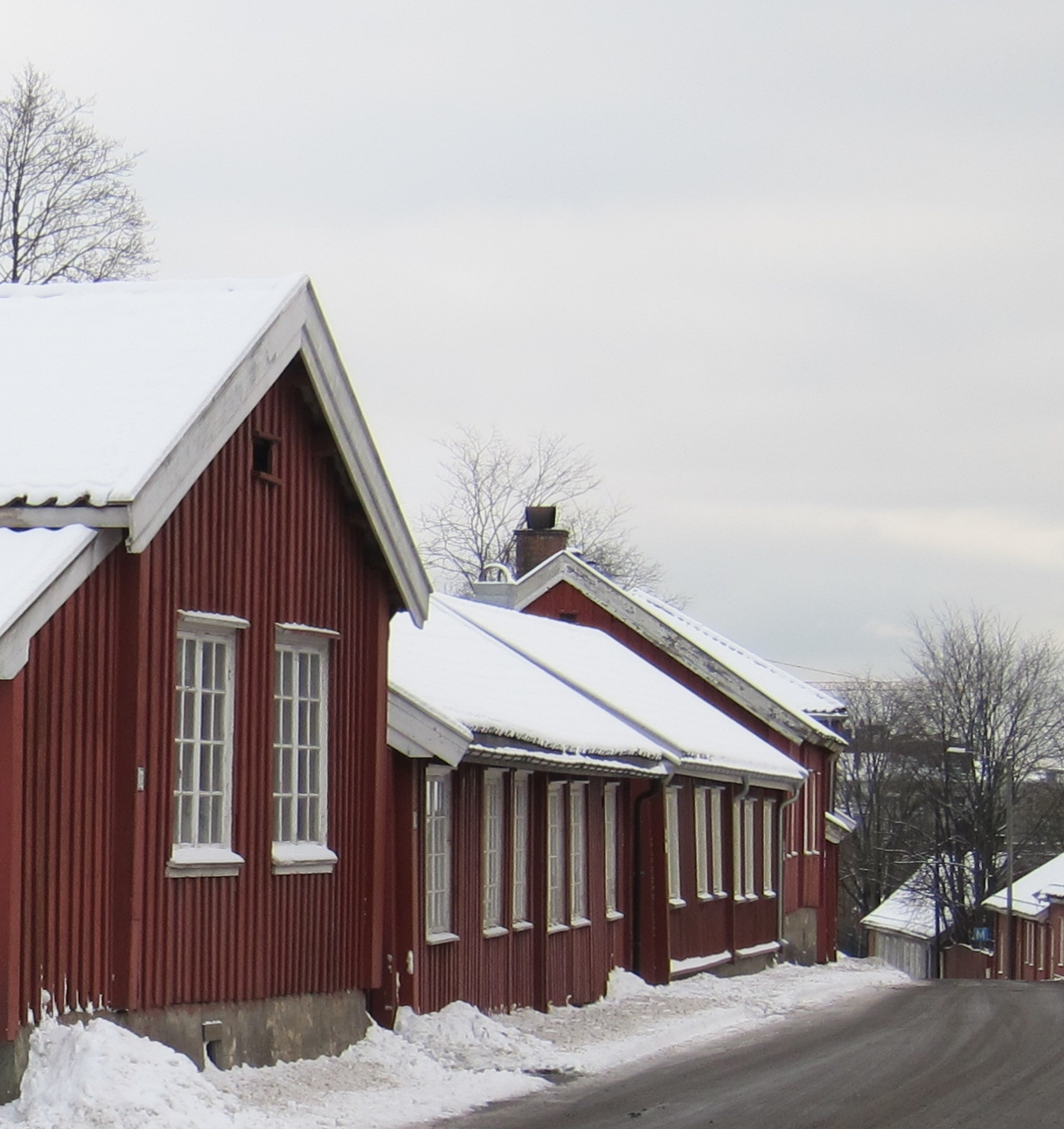 Old wooden house, originally for Moss Ironworks (Moss Jernverk in Norwegian) workers in Moss, Norway. The houses are on the eastern side of the road passing through. The road was in earlier times the main road from Christiania to Gothenburg.